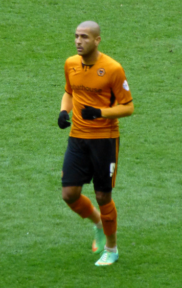 Leon Clarke - Wolverhampton Wanderers vs Peterborough United (05/04/2014)